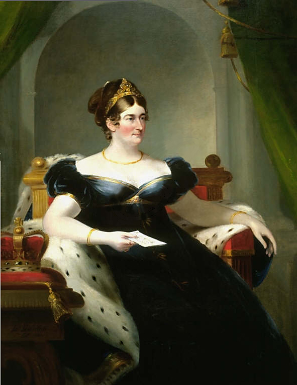 Caroline of Brunswick-Wolfenbüttel queen of the United Kingdom and of Hanover